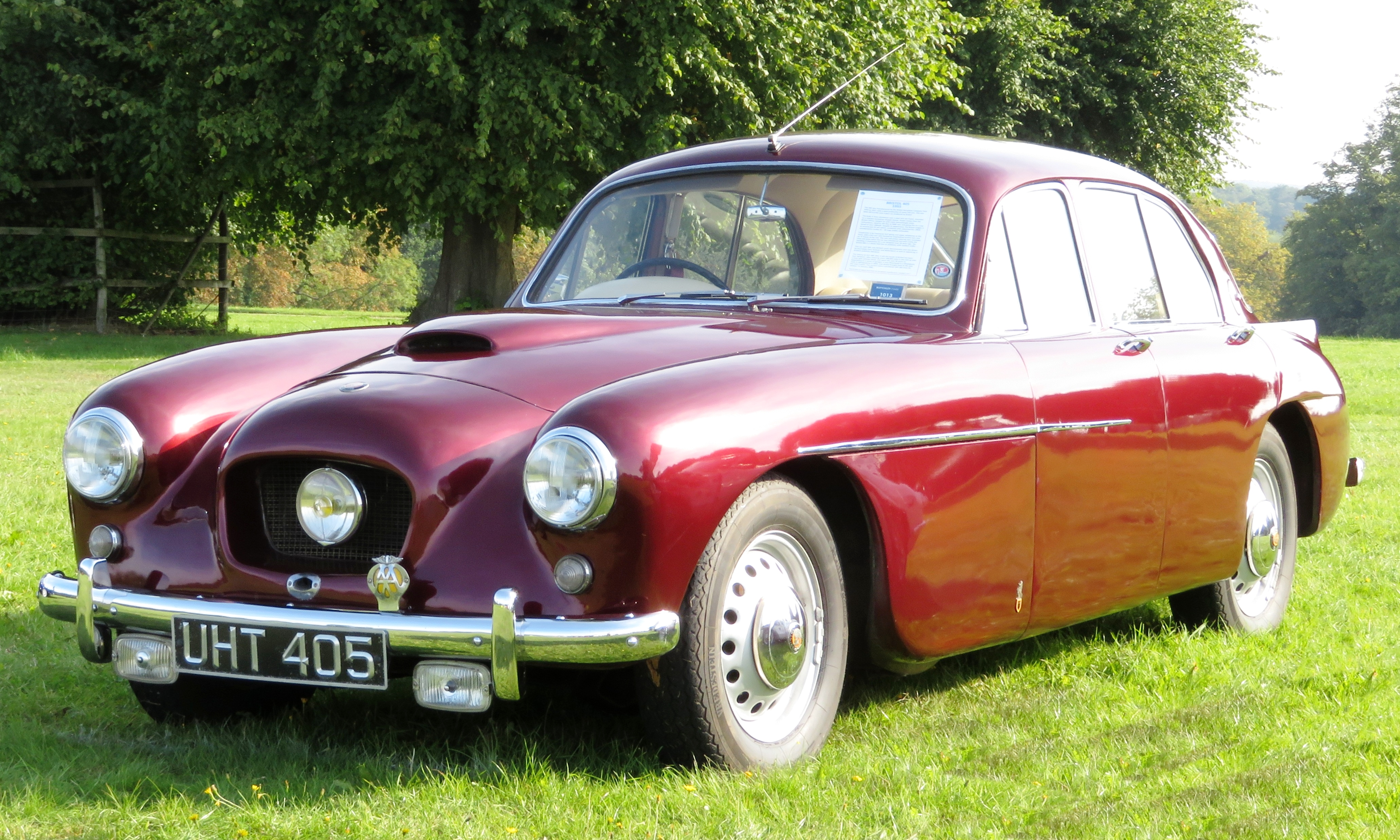 Bristol 405 (1955) at Knebworth (2017)